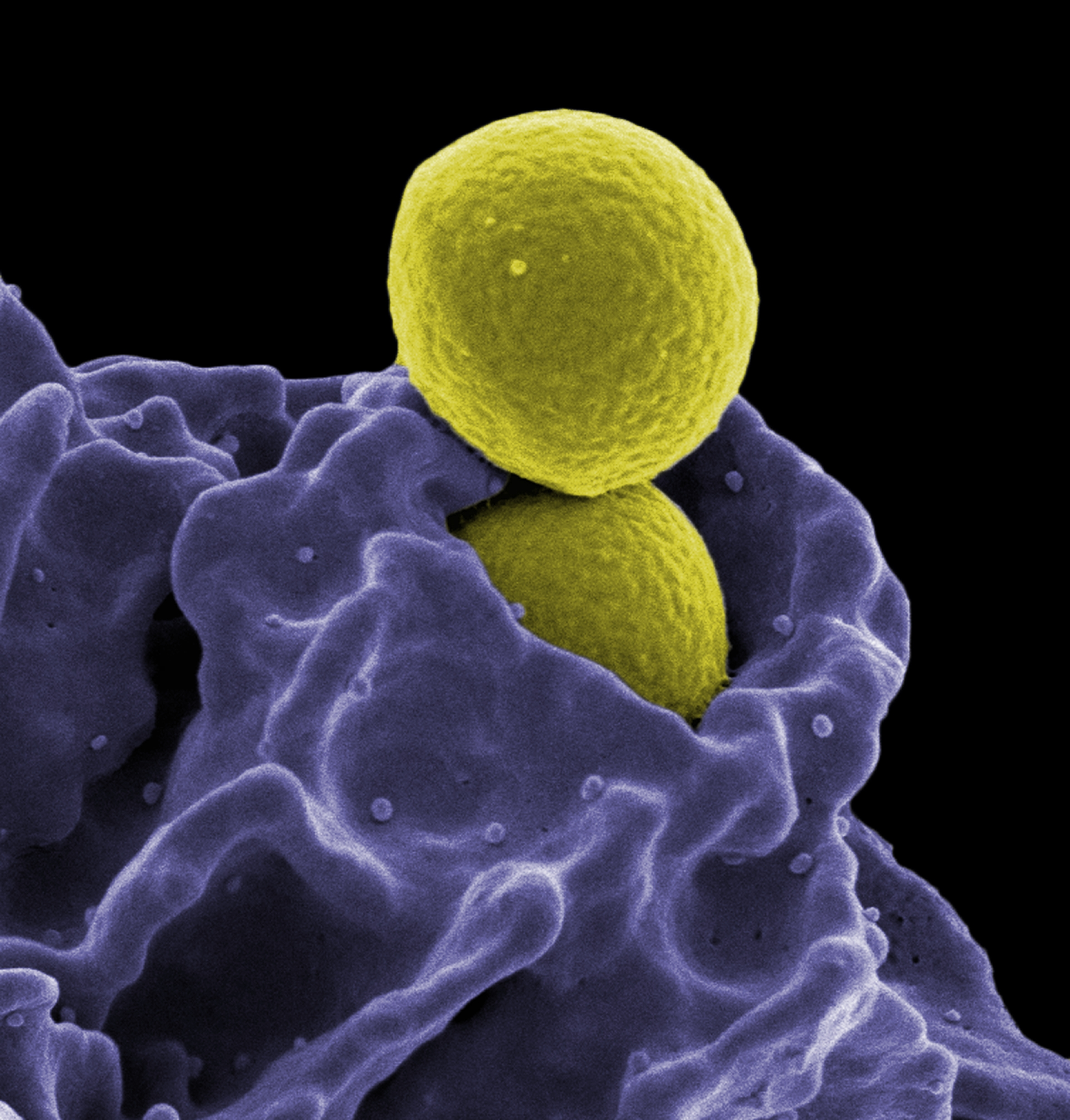 Title: MRSA, Ingestion by Neutrophil Description: MRSA (yellow) being ingested by neutrophil (purple). Categories: Research in NIH Labs and Clinics Type: Color, Photo Source: National Institute of Allergy and Infectious Diseases (NIAID) Date Created: 2009 Date Added: 8/20/2013 Reuse Restrictions: None - This image is in the public domain and can be freely reused. Please credit the source and/or author listed above.